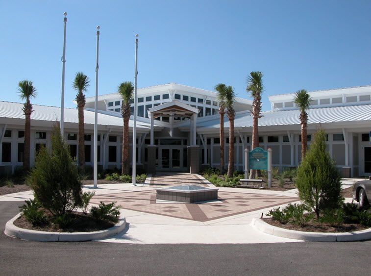 Visitor Center in Ponte Vedra Beach, Florida